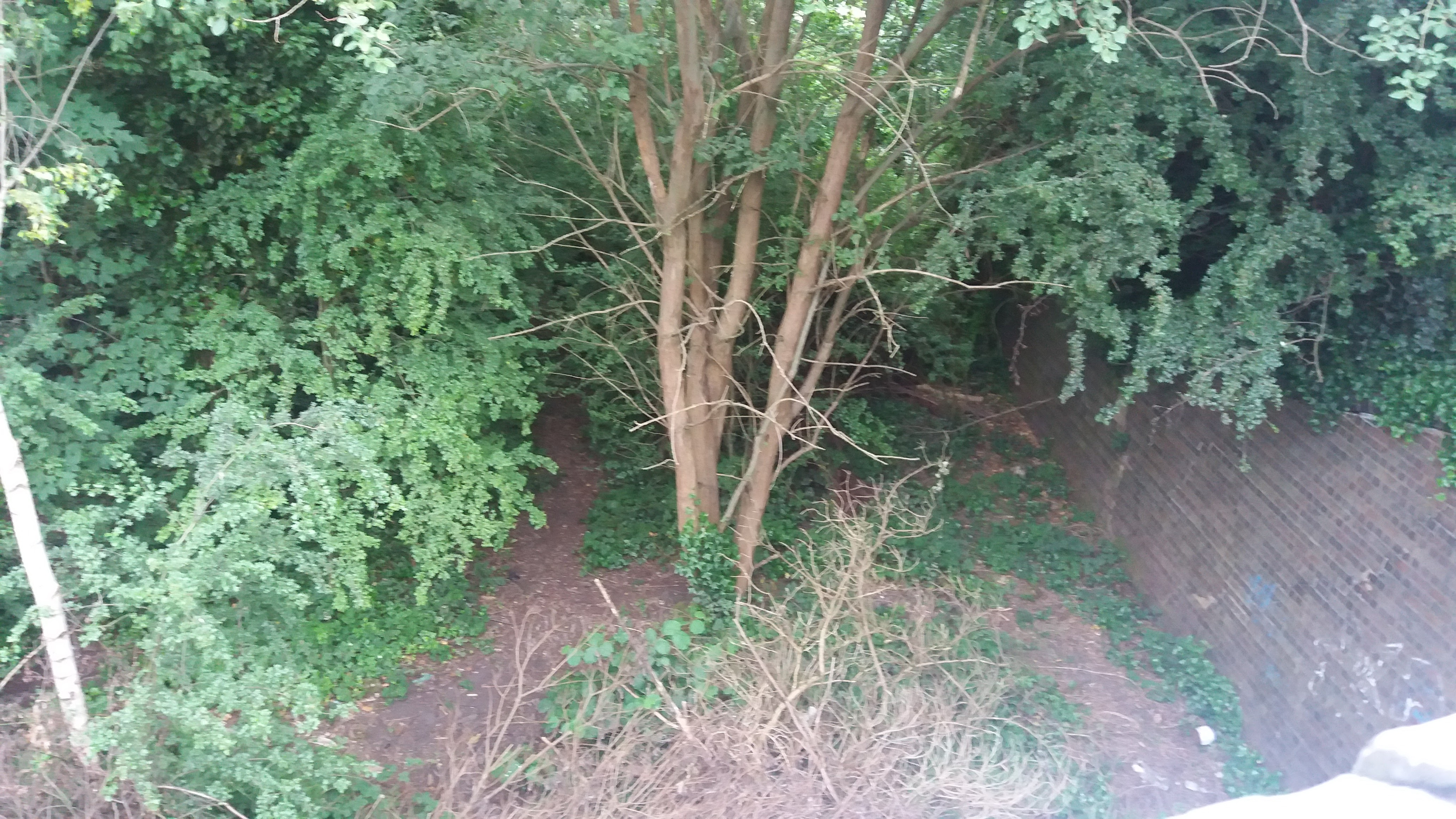 My own.